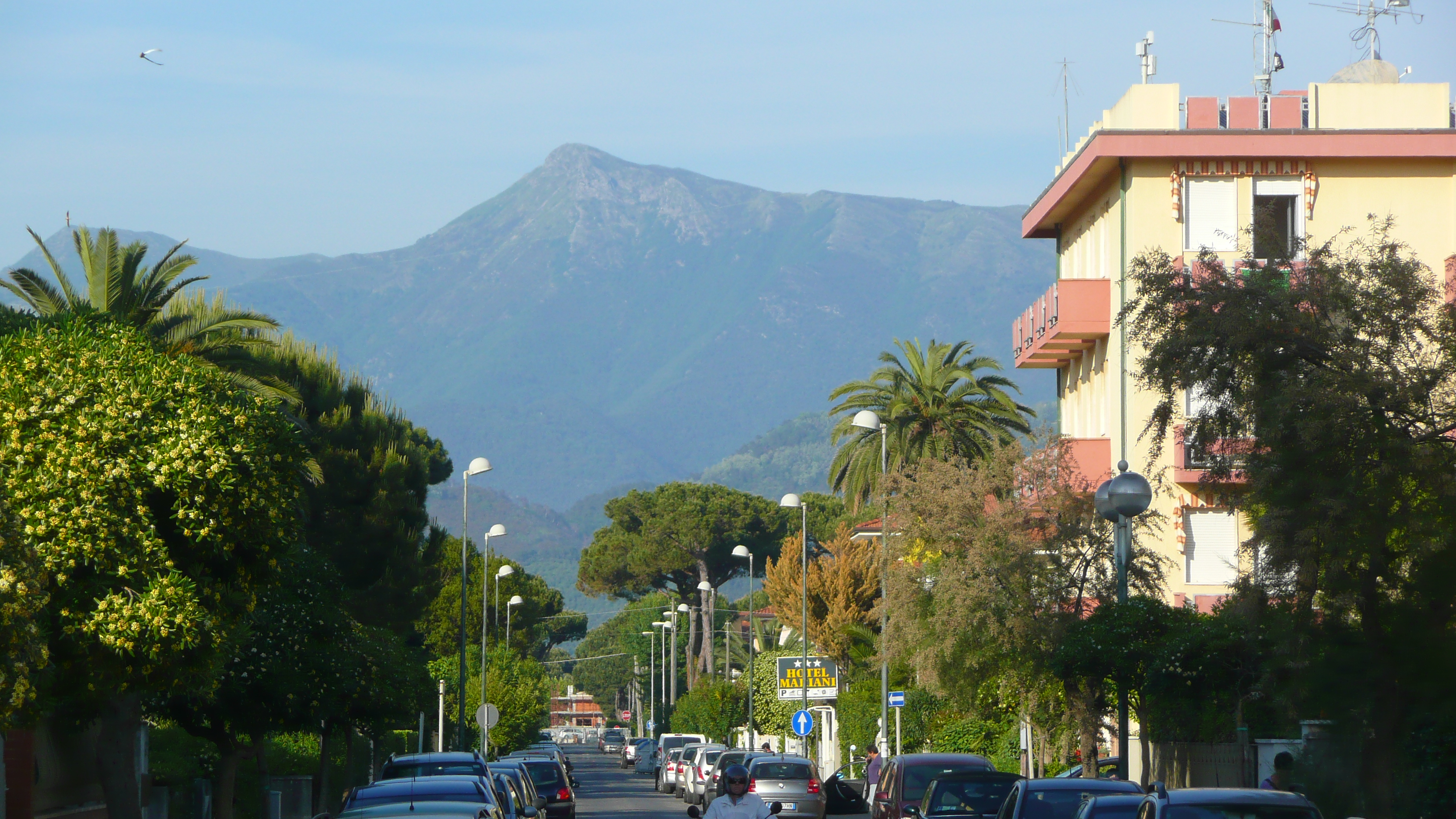 Sideroad in Lido di Camaiore